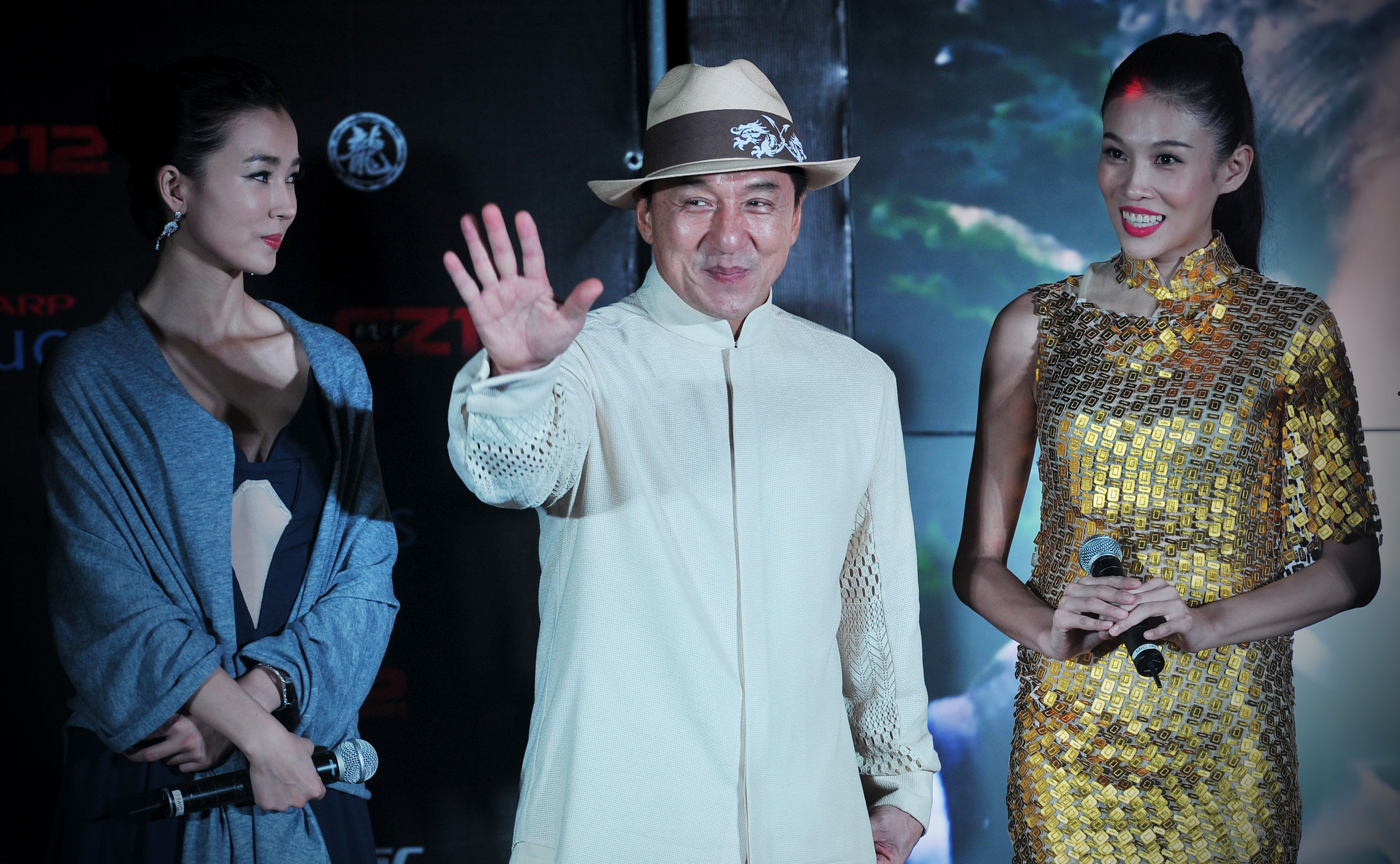 Jackie Chan in Kuala Lumpur for Press conference "CZ12" Promo Tour at a hotel in Kuala Lumpur December 18, 2012. where he was flanked by two young co-stars, newcomer actresses Zhang Lanxin and Yao Xintong.